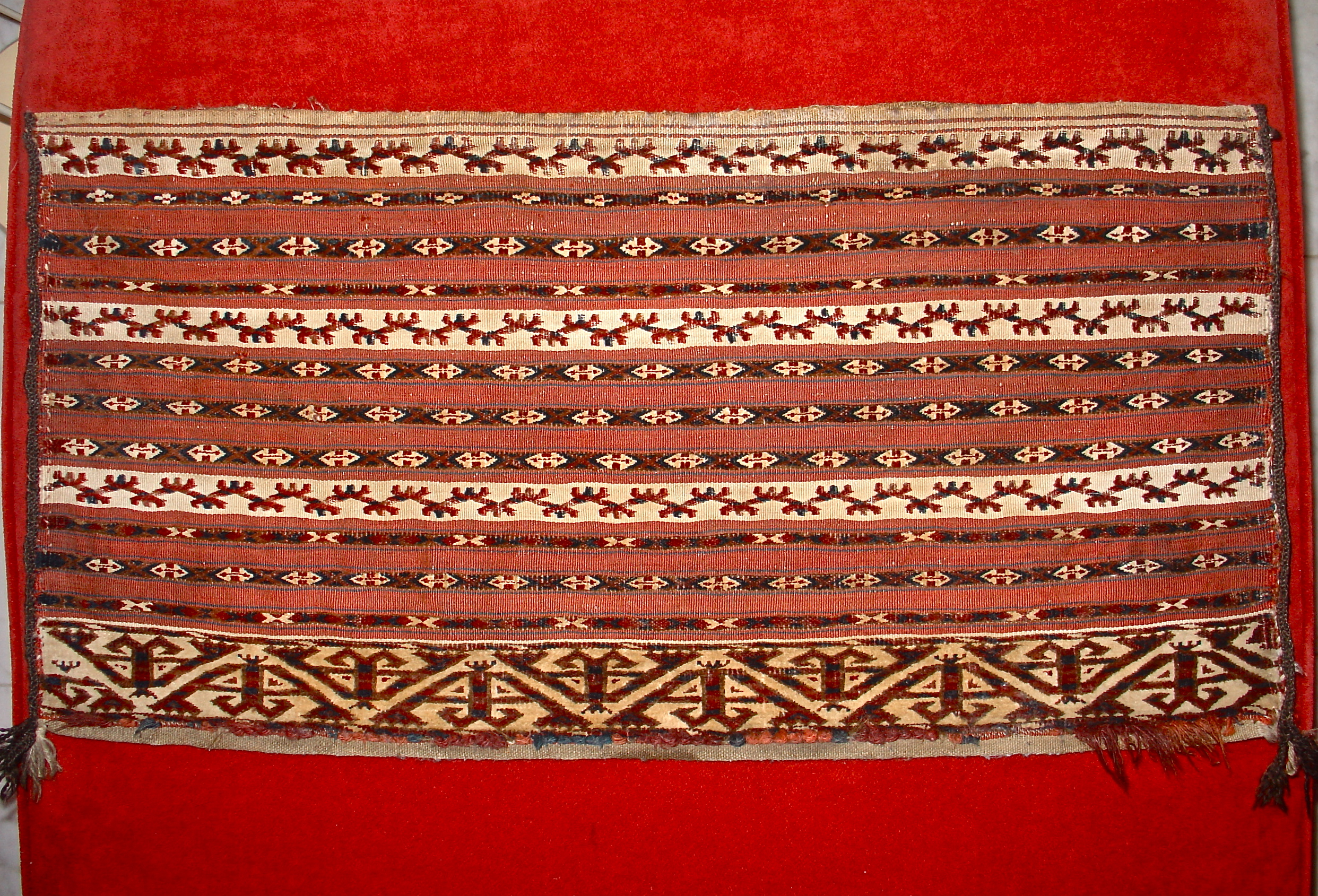 Nomadic spoonbag "Tekke ak chuval" from Tekke Turkmans ± 1910